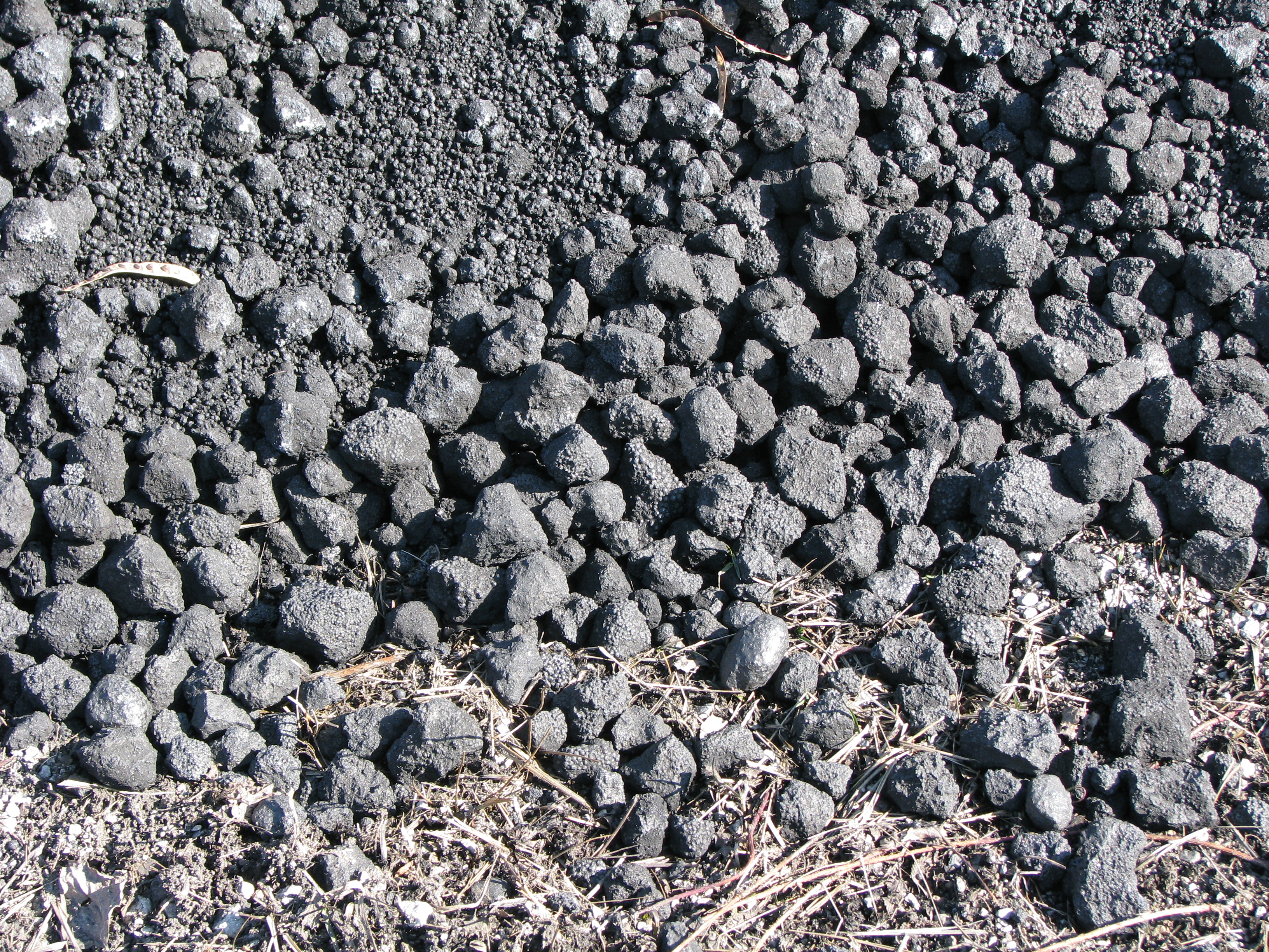 Petroleum coke, close-up picture.